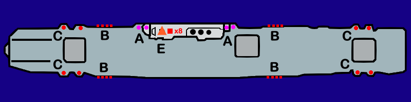 Sketch horizontal view of Yorktown class carriers in 1940s.